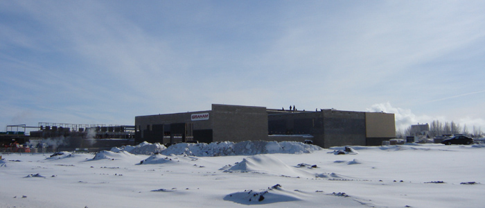 Consruction Site Blairmore Suburban Centre, Blairmore SDA, Saskatoon, Saskatchewan, Canada